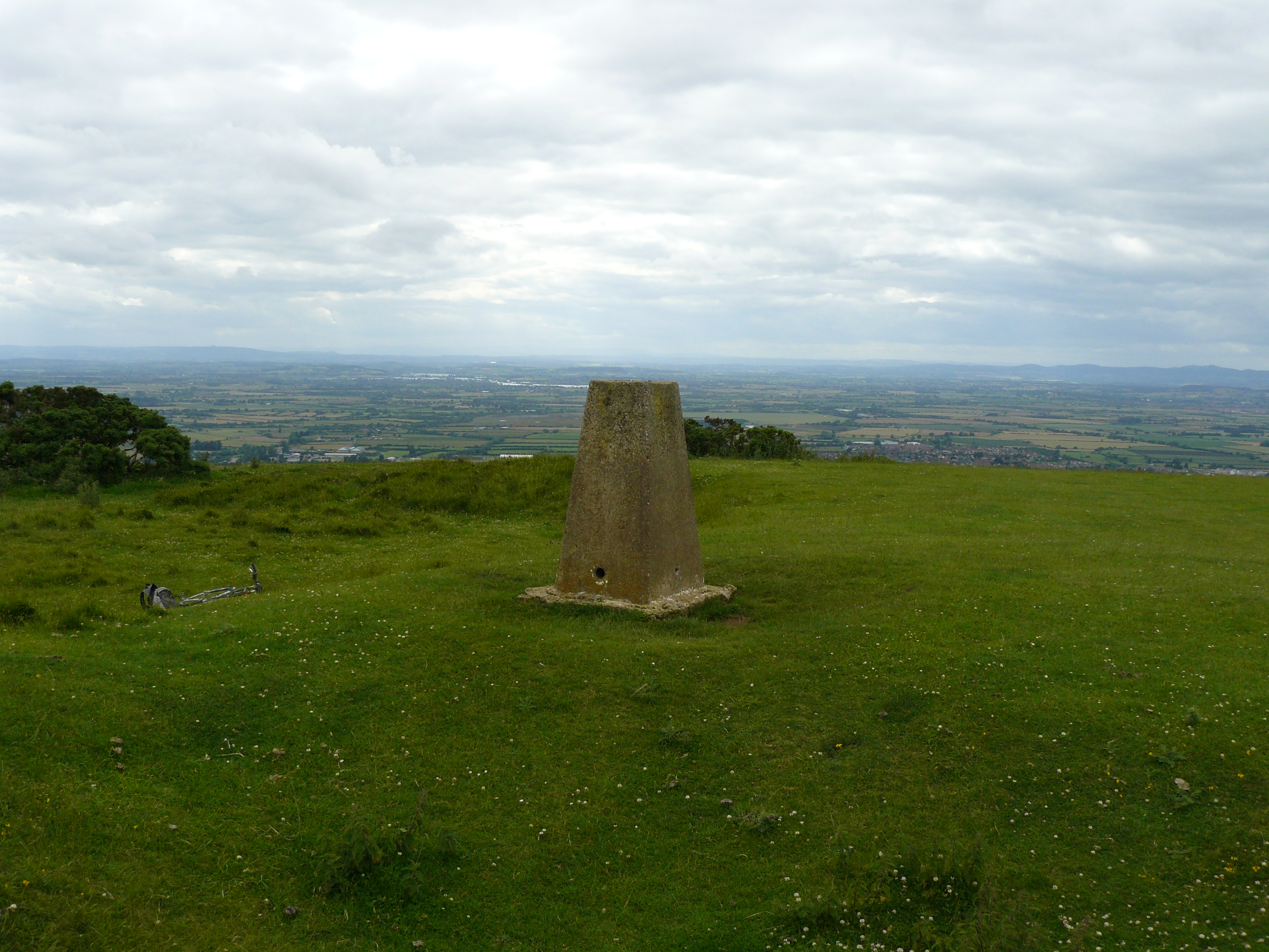 Cleeve Common Trig Point. Cleeve Hill